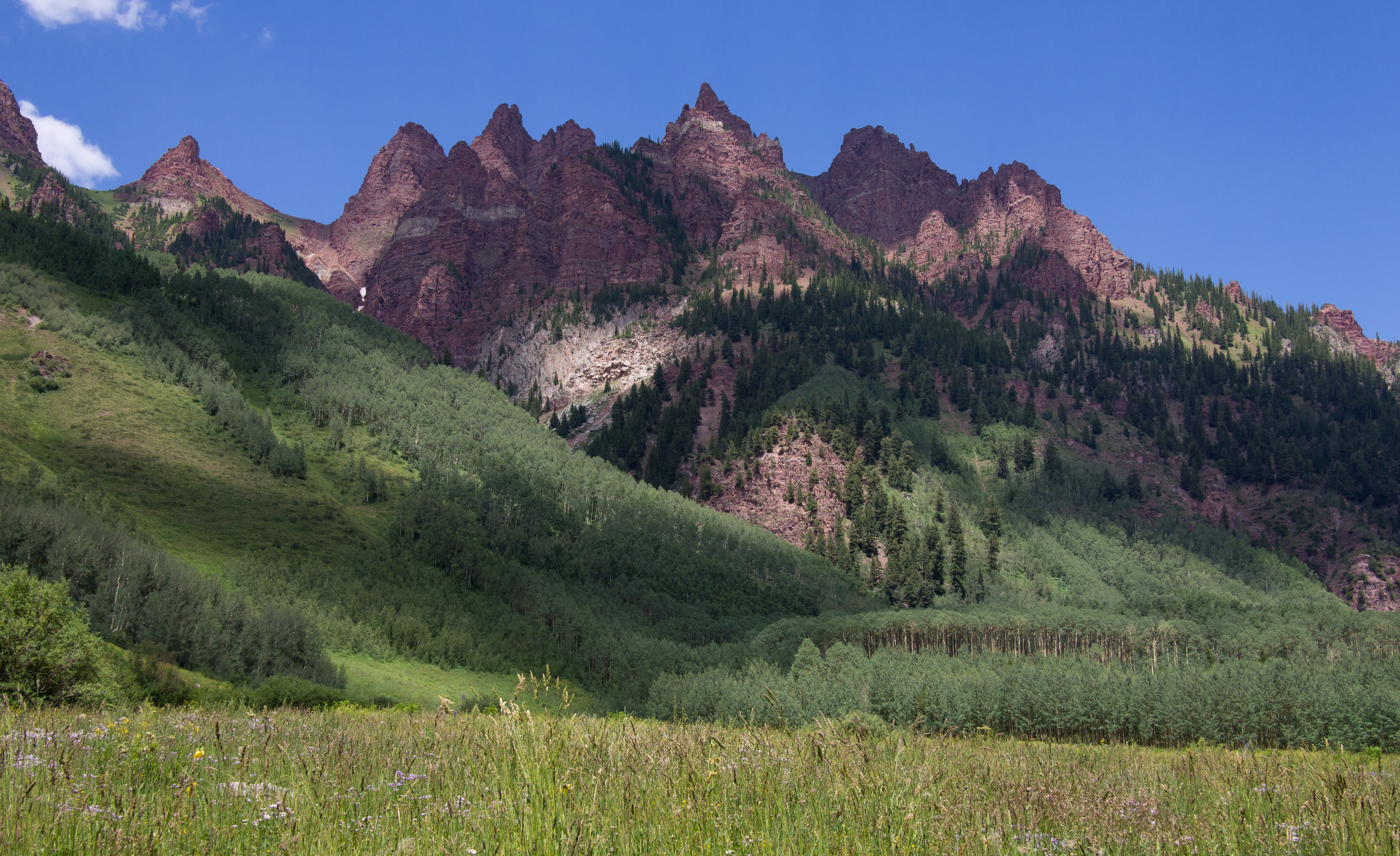 Sievers Mountain Group, in the Maroon Bells area near Aspen, Colorado.